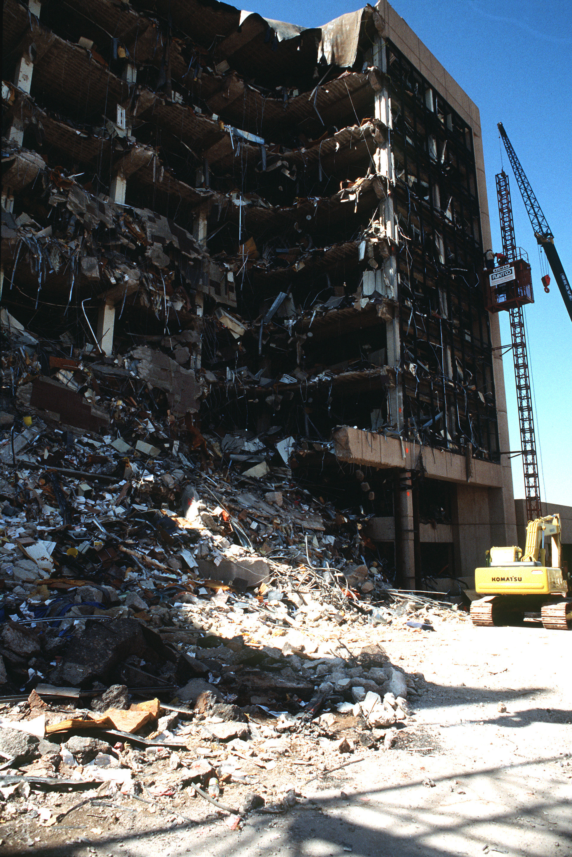 Oklahoma City Bombing. Construction workers erect an external elevator on the side of the Federal Building. (Released to Public) Location: OKLAHOMA CITY, OKLAHOMA (OK) UNITED STATES OF AMERICA (USA) DoD photo by: SSGT MARK A. MOORE Date Shot: 21 Apr 1995